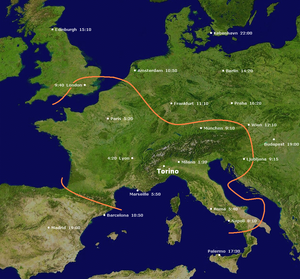 European train travel times from Turin, as of september 2006, according to Trenitalia.it (Italian routes) and Bahn.de. Orange line is the 10-hour isochrone. Satellite image serving as background map taken from USGS (all work released by US Federal Agencies is into public domain). Further elaboration and editing by me.